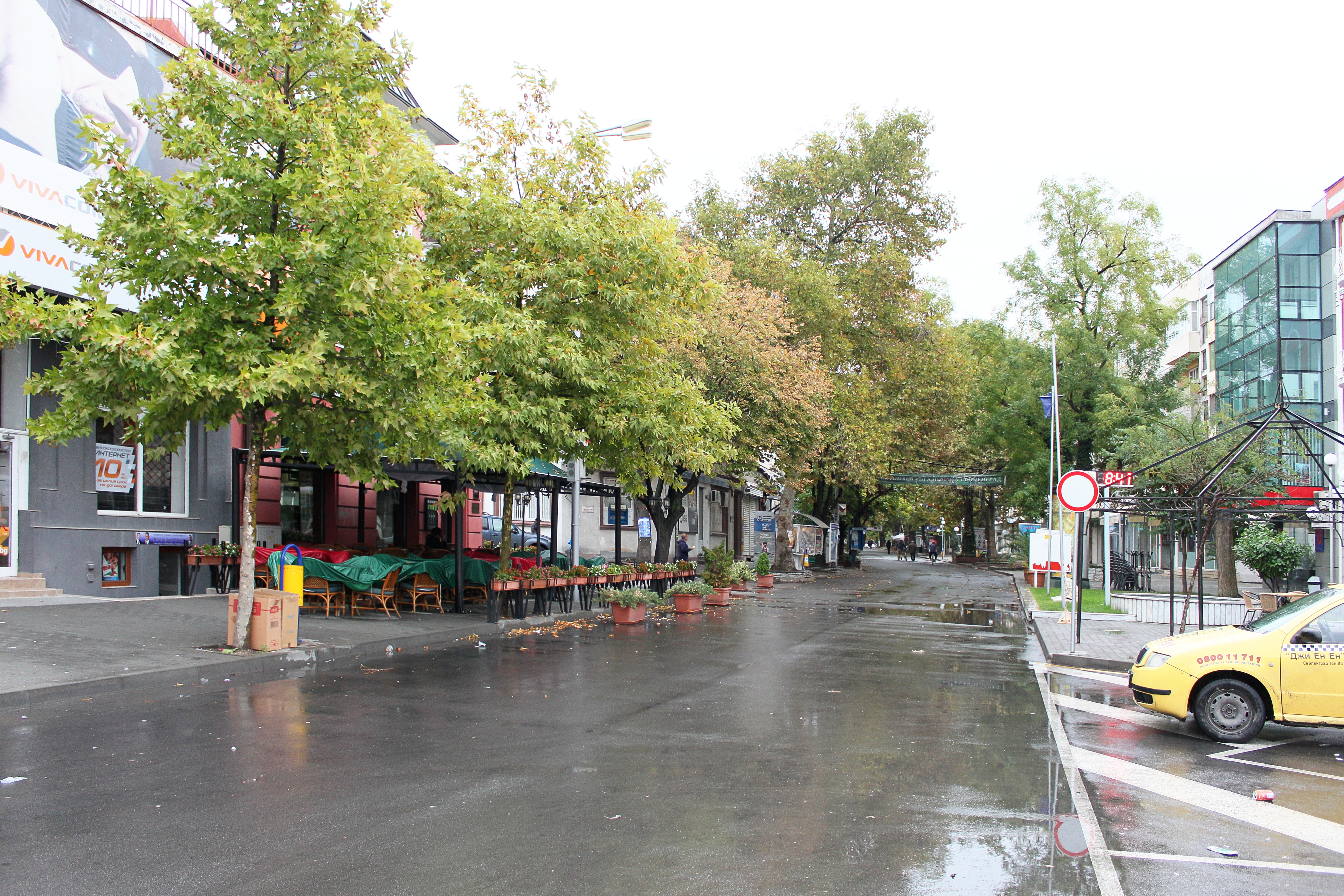 Swilengrad